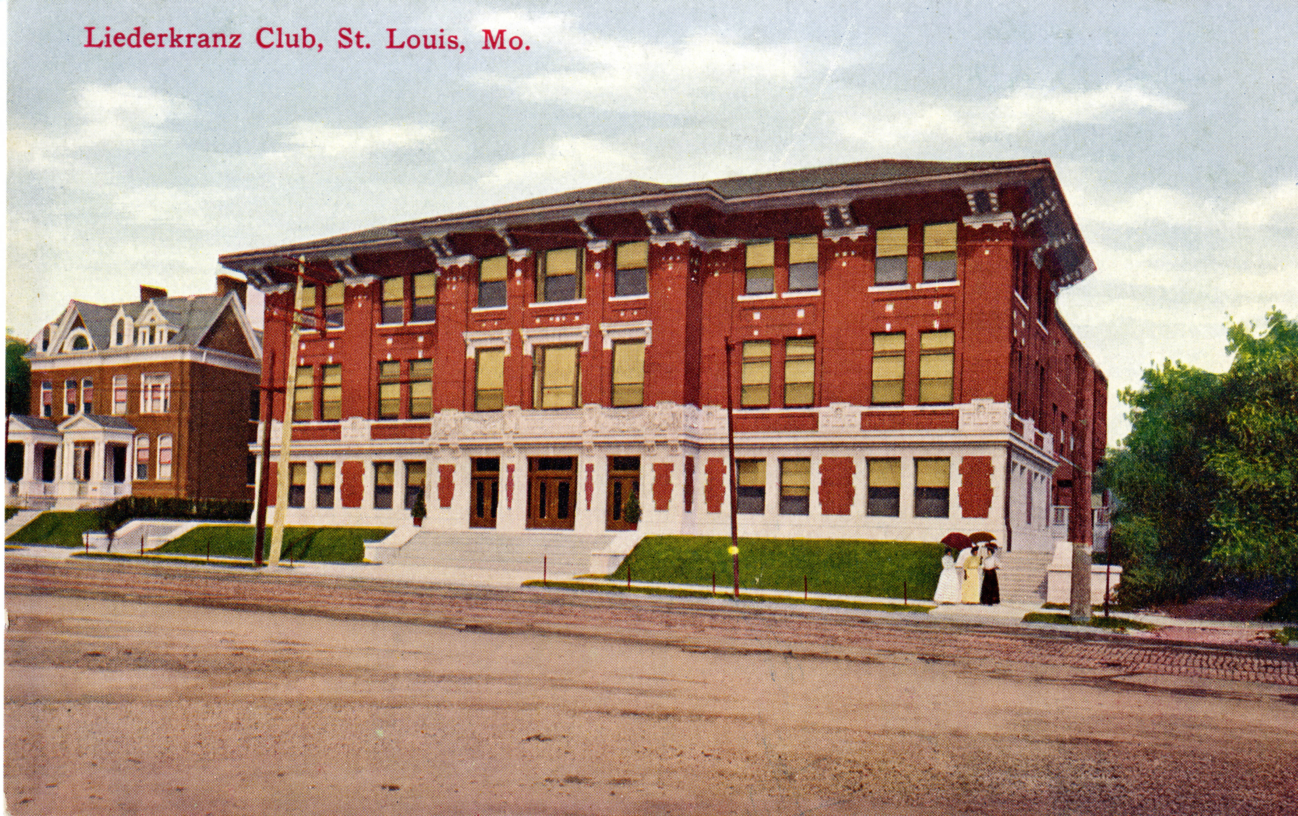 Title Liederkranz Club, St. Louis, Missouri. Sub-Collection Name Mary Alice Hansen Postcard Collection Description Shows the front of the Leiderkranz Club in St. Louis. Subject.Local Buildings; Social and Civic Facilities; Lanier, Jennie Ware [?]; Ware, Mary [?] Coverage United States - Missouri - St. Louis - St. Louis Language English; English Date circa 1910 Type Image Format TIFF Scanned 800 dpi - Color - 3 1/2 x 5 Identifier MS294_0162.tif Relation Mary Alice Hansen Postcard Collection donated by Hansen, Mary Alice Publisher.Digital Missouri State Archives Rights Copyright is in the public domain. Items reproduced for publication should carry the credit line: Courtesy of the Missouri State Archives. Copy Request To order a reproduction from the archival TIFF file, inquire about permissions, or for information about prices, contact Missouri State Archives at: (573) 751-3280 or